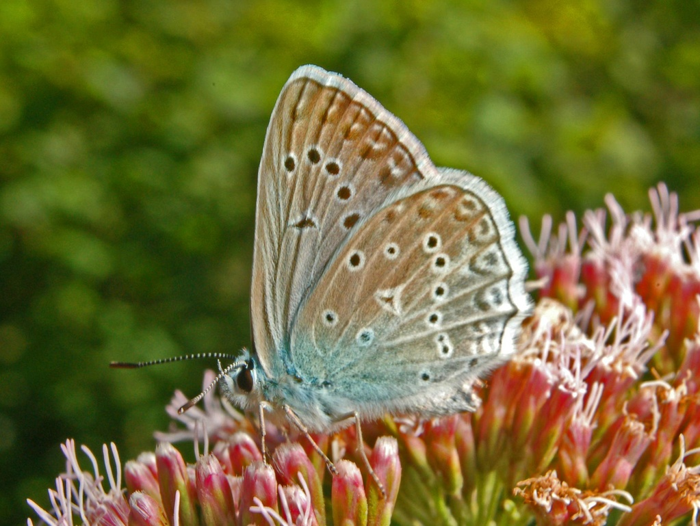 Lycaenid